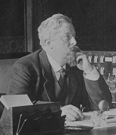 French chemist and politician Jules-Louis Breton (1872-1940)